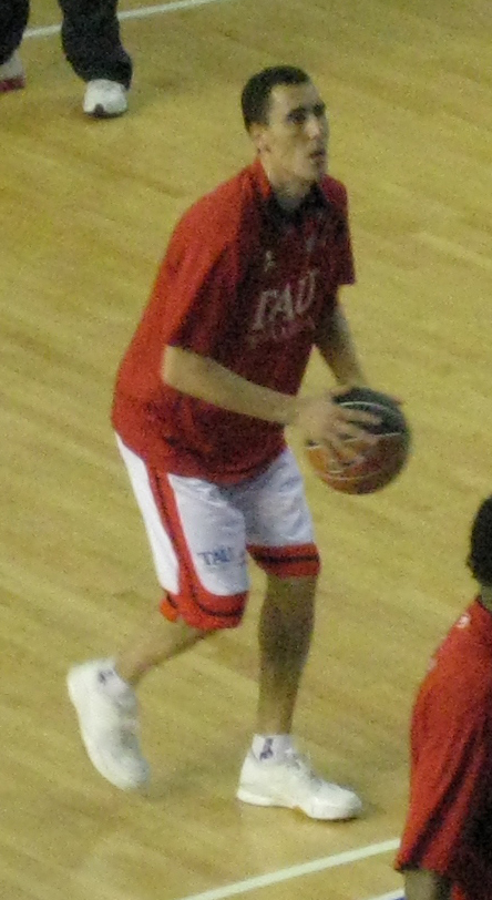 Pablo Prigioni warming up in the second game of the 2008 ACB Finals.